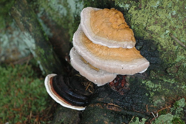 Fomitopsis pinicola from Commanster, Belgium. The determination of the species shown in this picture has been verified.